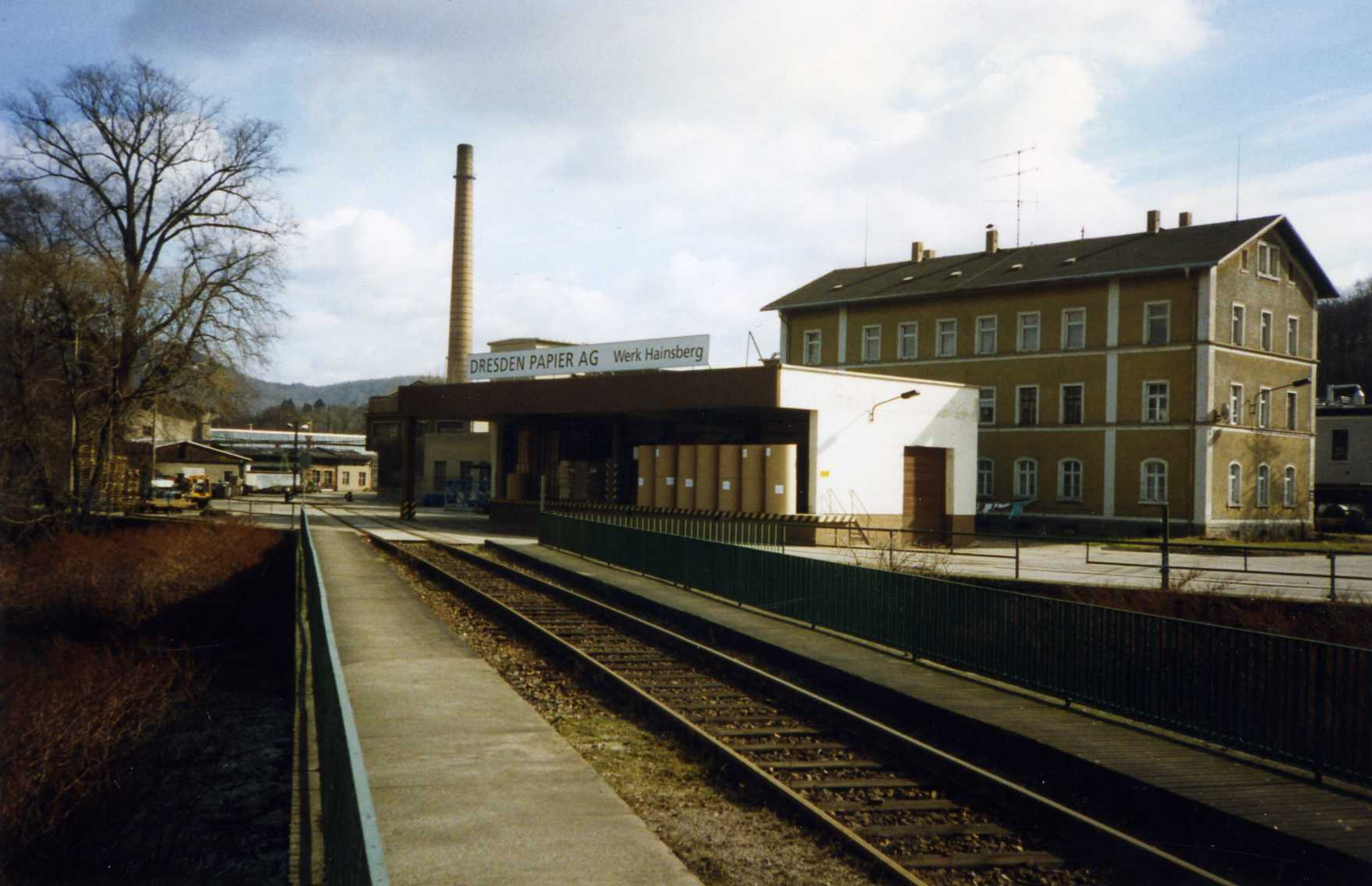 PAPER HAS BEEN MANUFACTURED ON THIS SITE SINCE 1838.# The former VEB Papierfabrik Hainsberg Owned by Mercer International (formerly Pacific West Realty) from Washington state USA after the fall of the GDR. Bought just prior to this photo in 1993 at a giveaway price, though money was invested..... "With a focus still on environmental services, Mercer gained a foothold in the paper industry in 1993 with the acquisition of Dresden Paper AG, a state-owned paper recycling company. Mercer was able to buy Dresden Paper, whose assets were valued at $76.8 million, for just $660,000 plus the guarantee of 490 jobs and the investment of $49 million over the next three years to upgrade the facilities. Moreover, the state agreed to forgive $80 million in debt owed by Dresden Paper and pledged as much as $41 million to help the company meet short-term financial requirements. Mercer's investment would also be financed with state-subsidized low-interest loans, and the company was in line to receive a rebate of 31 percent of its investment as a cash payment. " Mercer sold this business in 2000. Now it is called Papierfabrik Hainsberg GmbH and the LETTURA LETTURA papers are made from 100% recycled constituents. Dresden Papier GmbH operates a wallpaper mill on the Elbe in Heidenau owned by Fortress Paper.